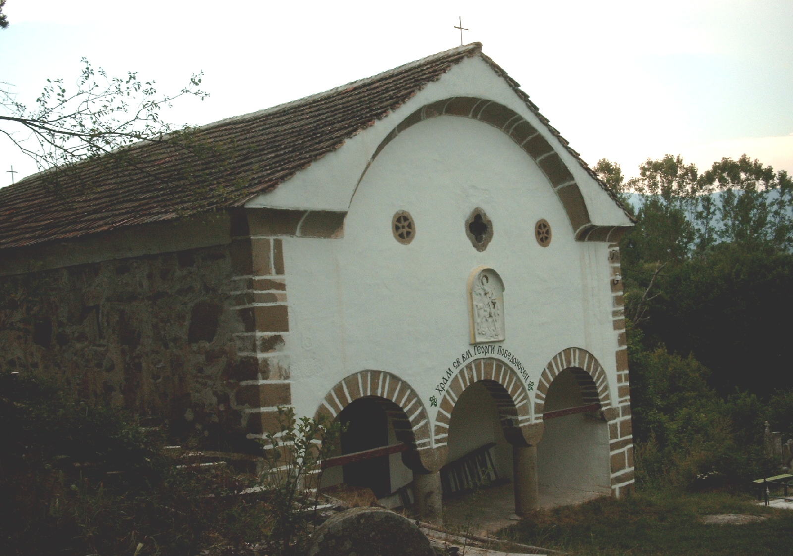 The church in village Dolno selo, Bulgaria